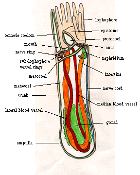 Scheme of phoronid morphology in longitudinal section.